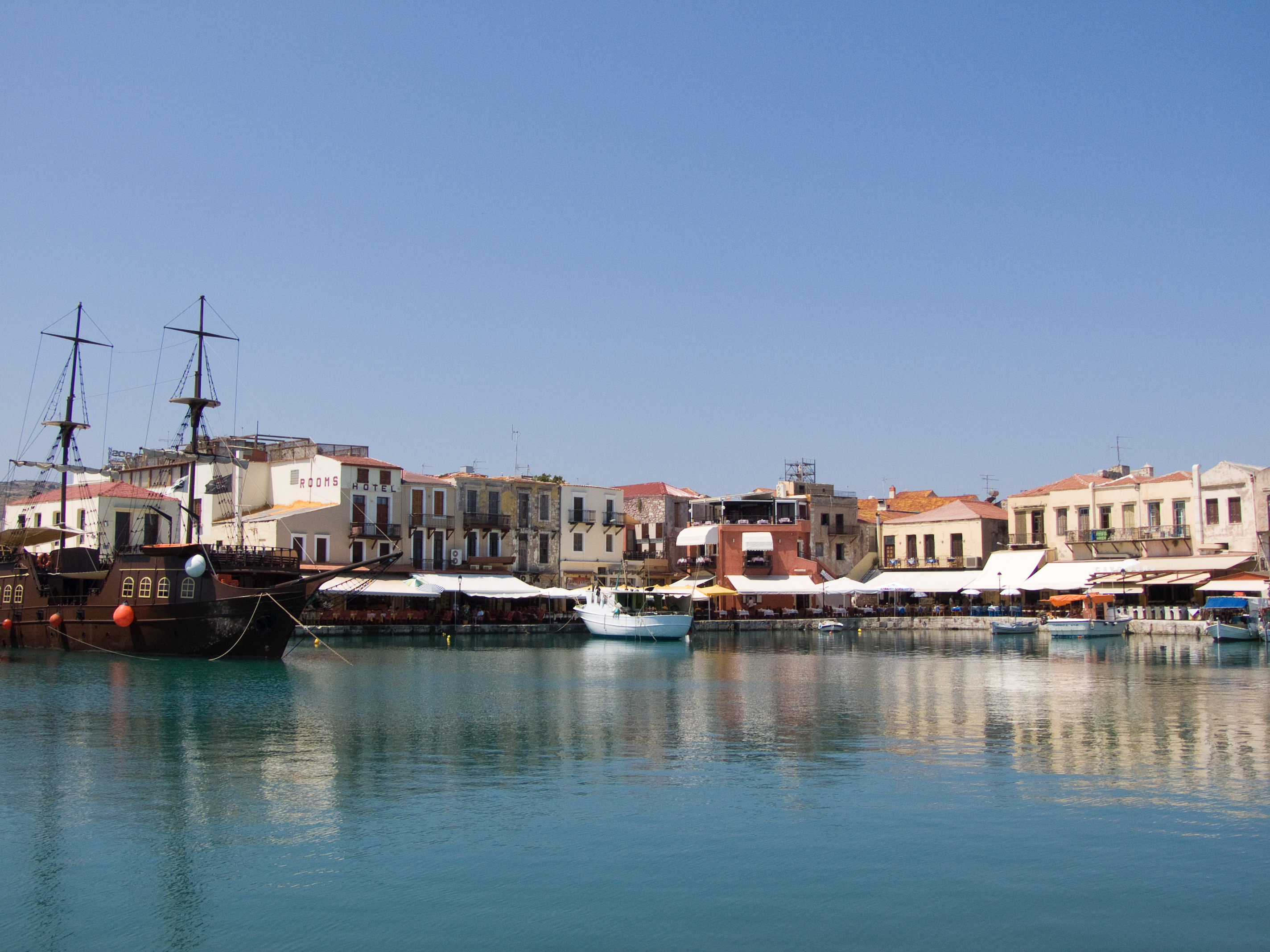 The view on a south-west part of Rethymno harbour.